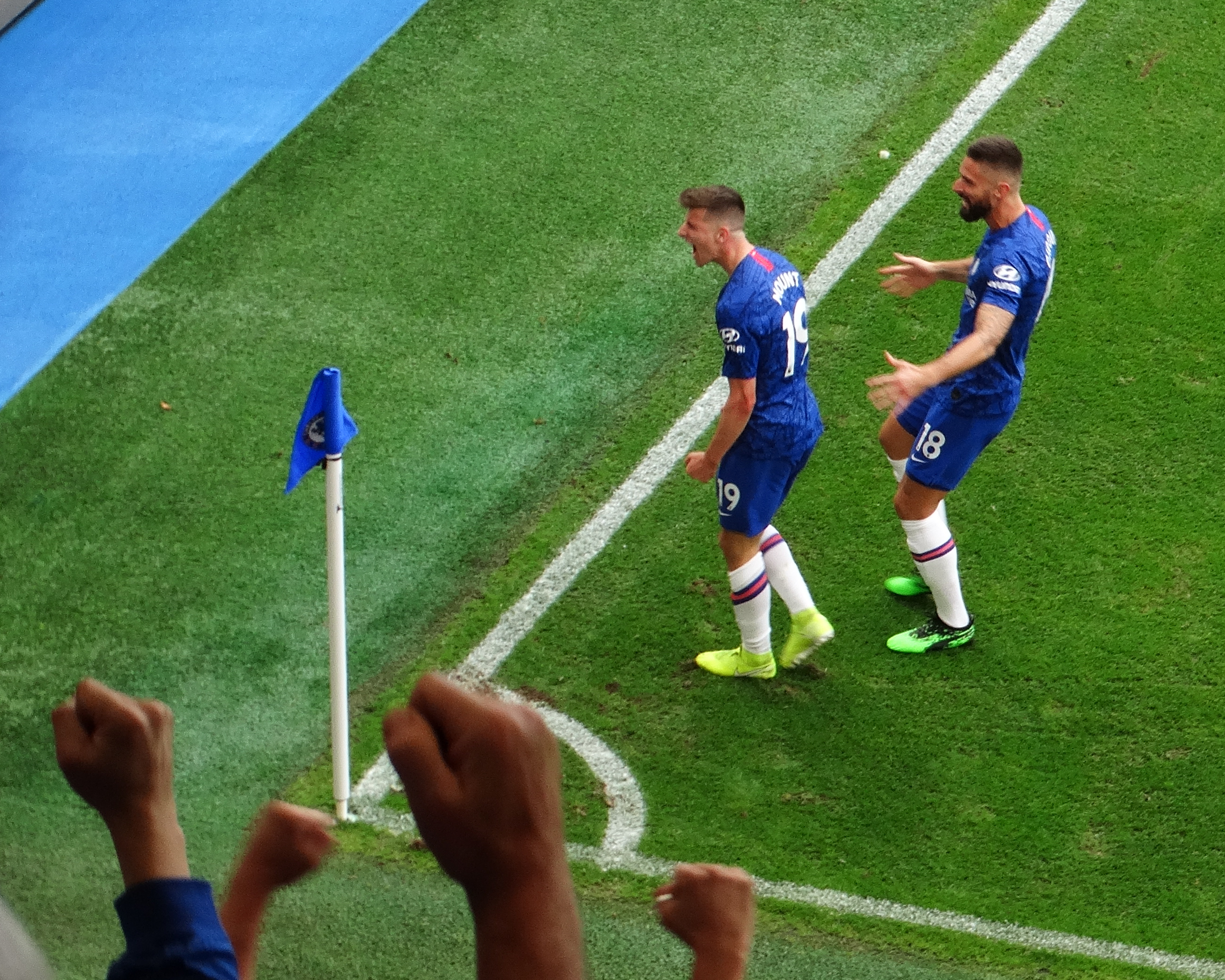 Mason Mount celebrating his first senior goal for Chelsea